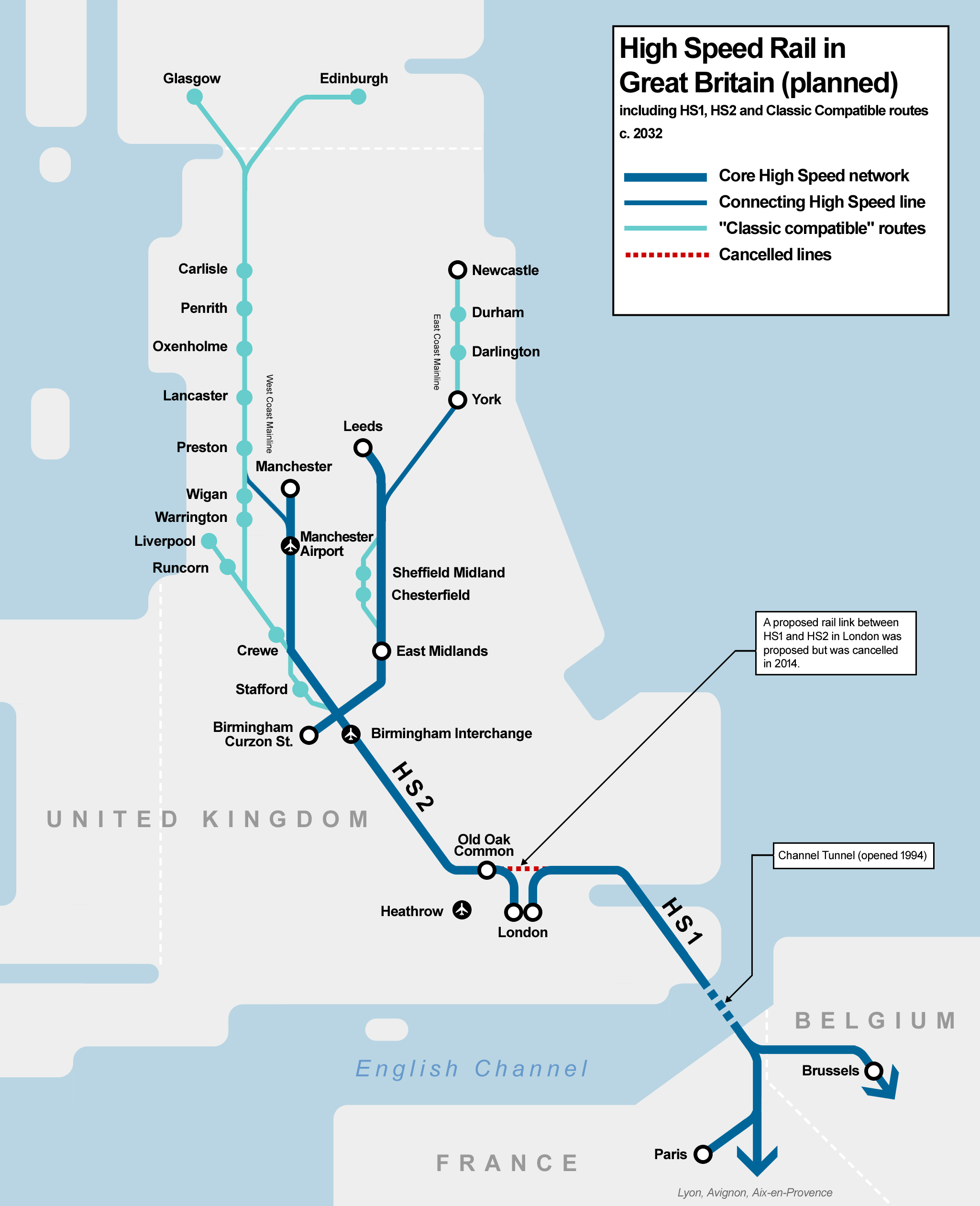 Diagrammatic map showing the planned High speed rail network in Great Britain, including HS1 (existing), HS2 (est. completion 2032) and proposed connections to "Classic Compatible" rail routes Source: "High speed rail: investing in Britain 's future phase two - the route to Leeds, Manchester and beyond summary" - Department for Transport, 23 January 2013. p. 5 Retrieved 13 May 2014.